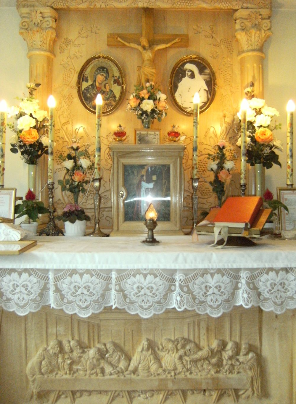 Mariavite Chapel in Warsaw